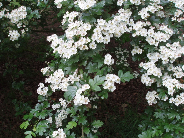 Hawthorn flowers and leaves, Halliford Park. See 171628 for a general view of this park with a hawthorn tree in flower